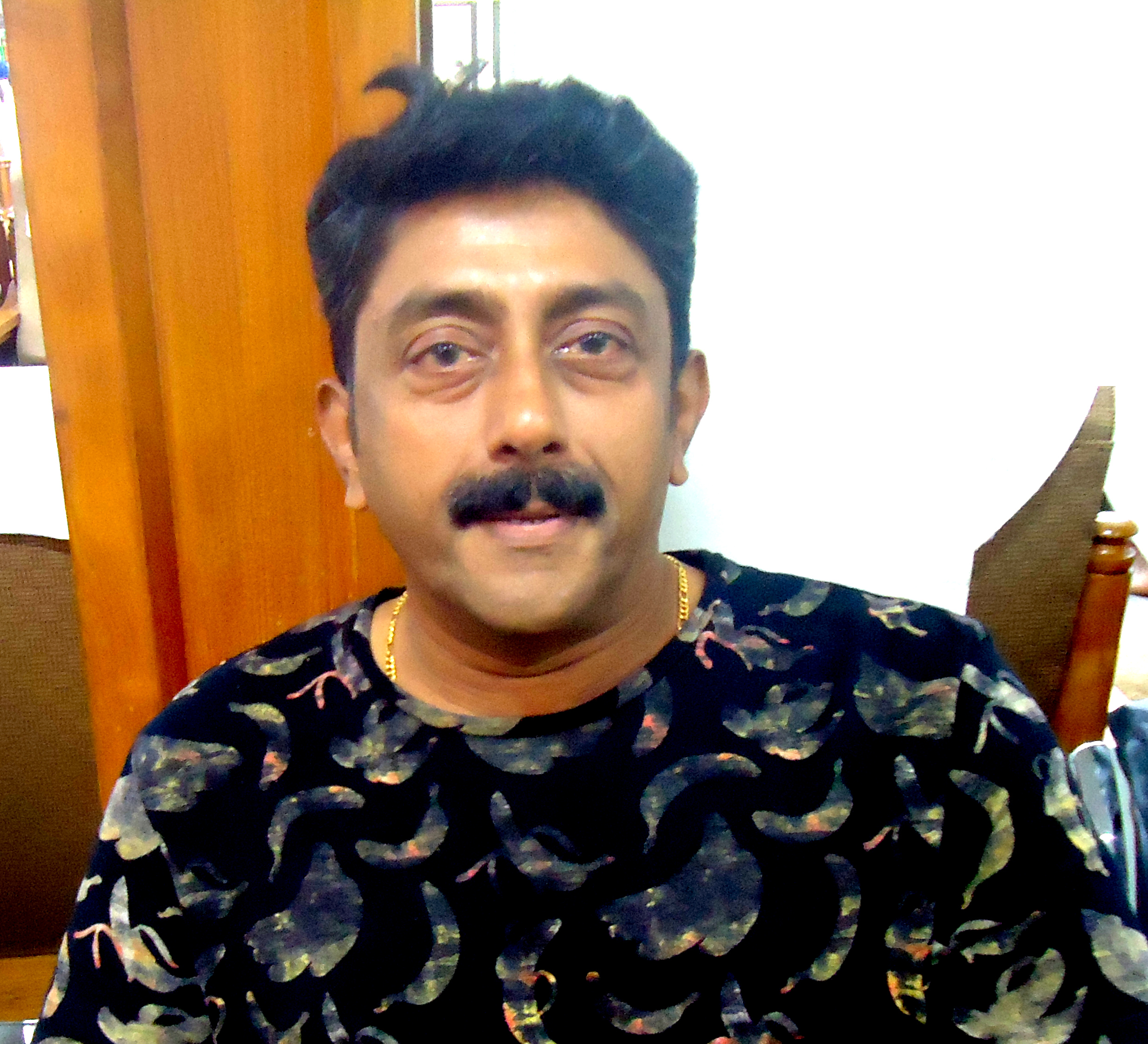 Ashokan AE Malayalam Film Actor at Cochin International Airport Domestic Terminal